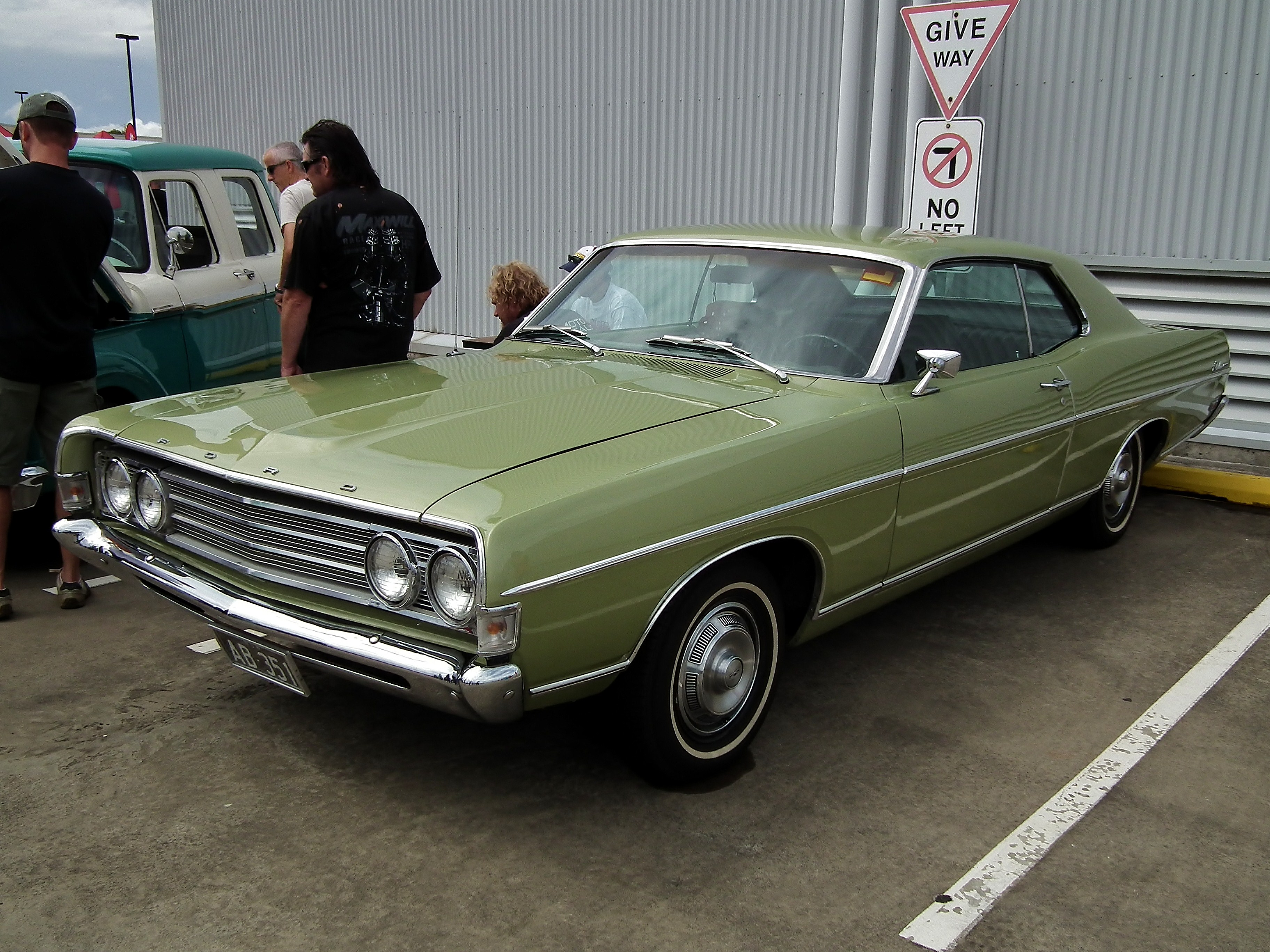 1969 Ford Fairlane 500 coupe. Taken at the 2012 New South Wales All American Day, held at Castle Towers Shopping Centre, Castle Hill, Sydney.